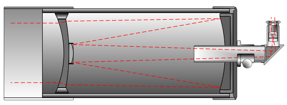 Maksutov-Cassegrain telescope.